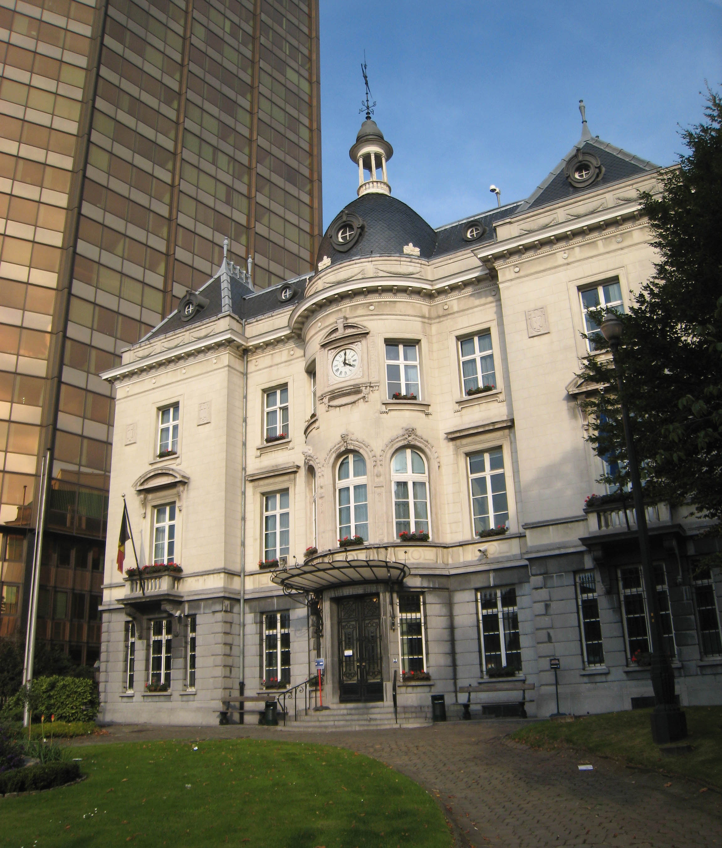 Town hall of Sint-Joost-ten-Node / Saint-Josse-ten-Noode